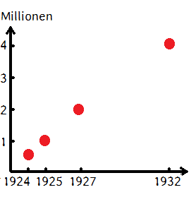 eartly customer of broadcast in Germany